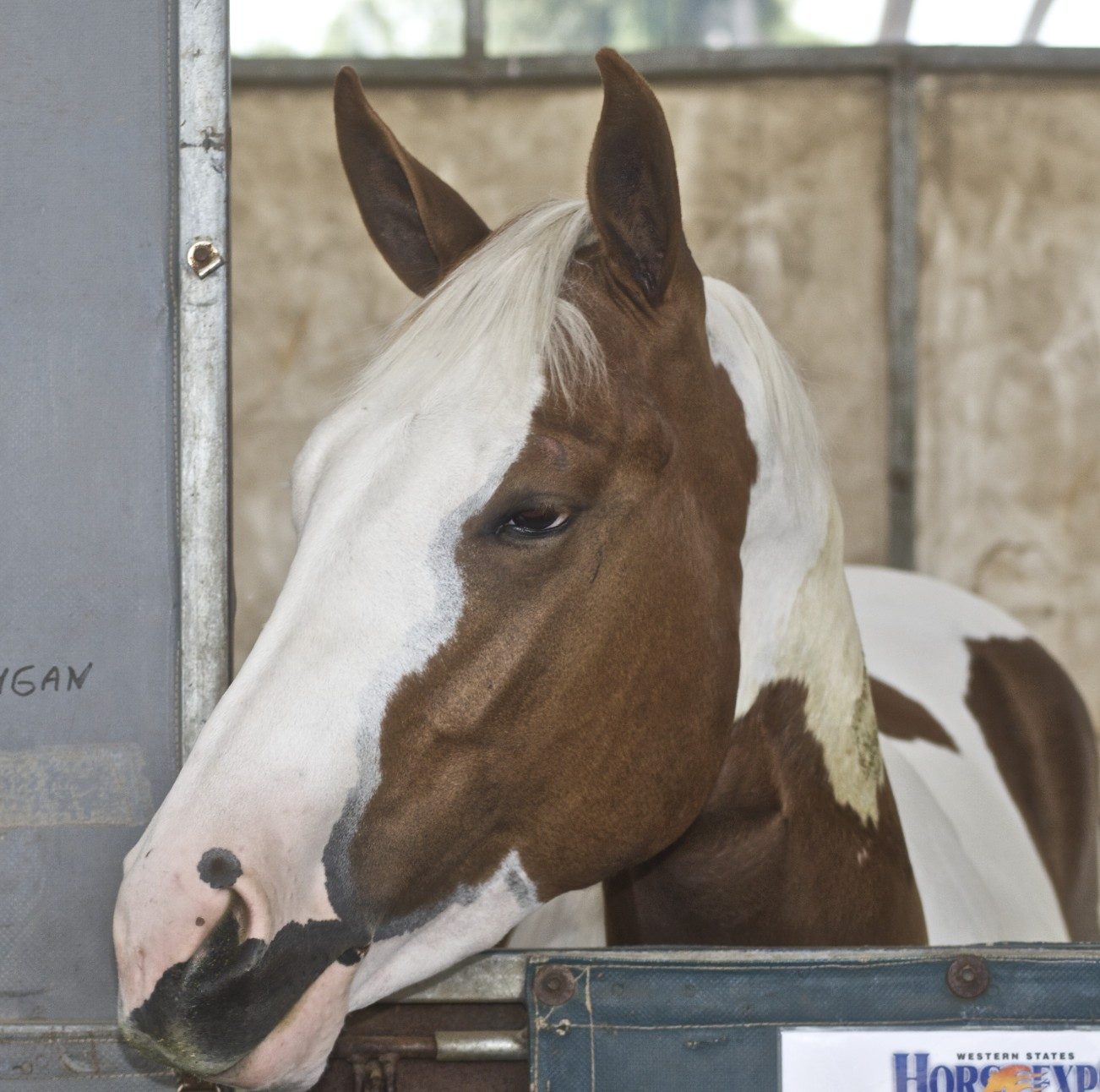 Be eyed paint horse - dark eye - other eye, see: File:Remedys Sweet Reward APHA light eye.jpg